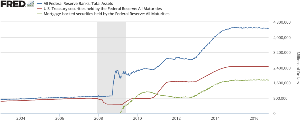 Federal_Reserve_total_assets